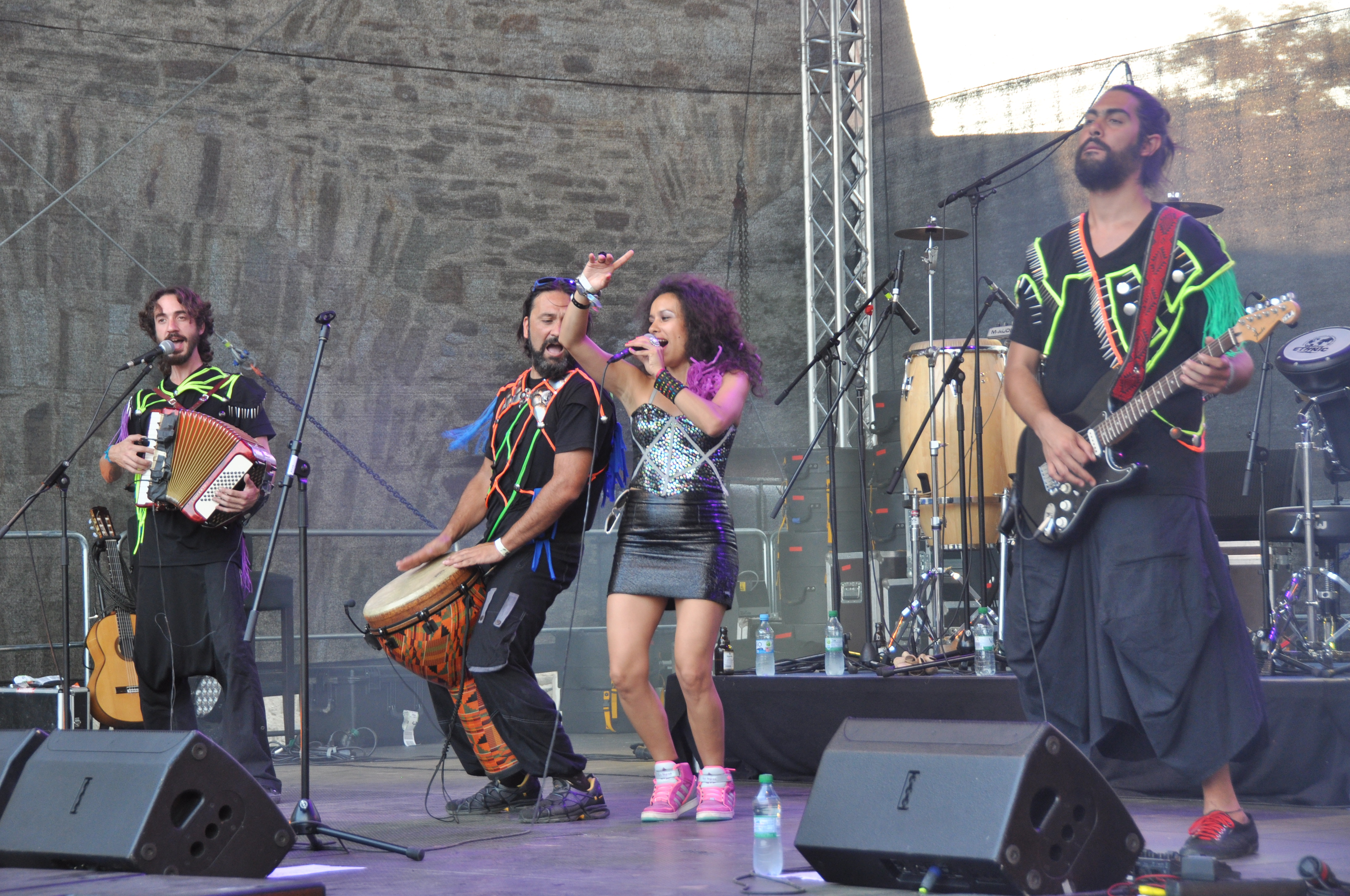 La Yegros (AR), appearance at the 12th World Music Festival "Horizonte" 2014 at the fortress of Ehrenbreitstein, Koblenz (Germany)